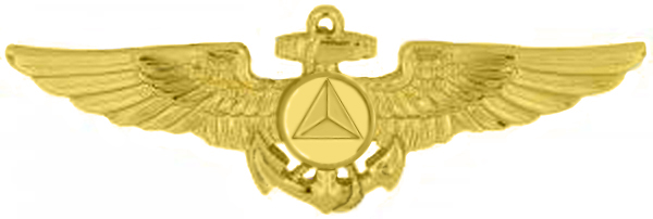 NOAA aviator qualification badge.